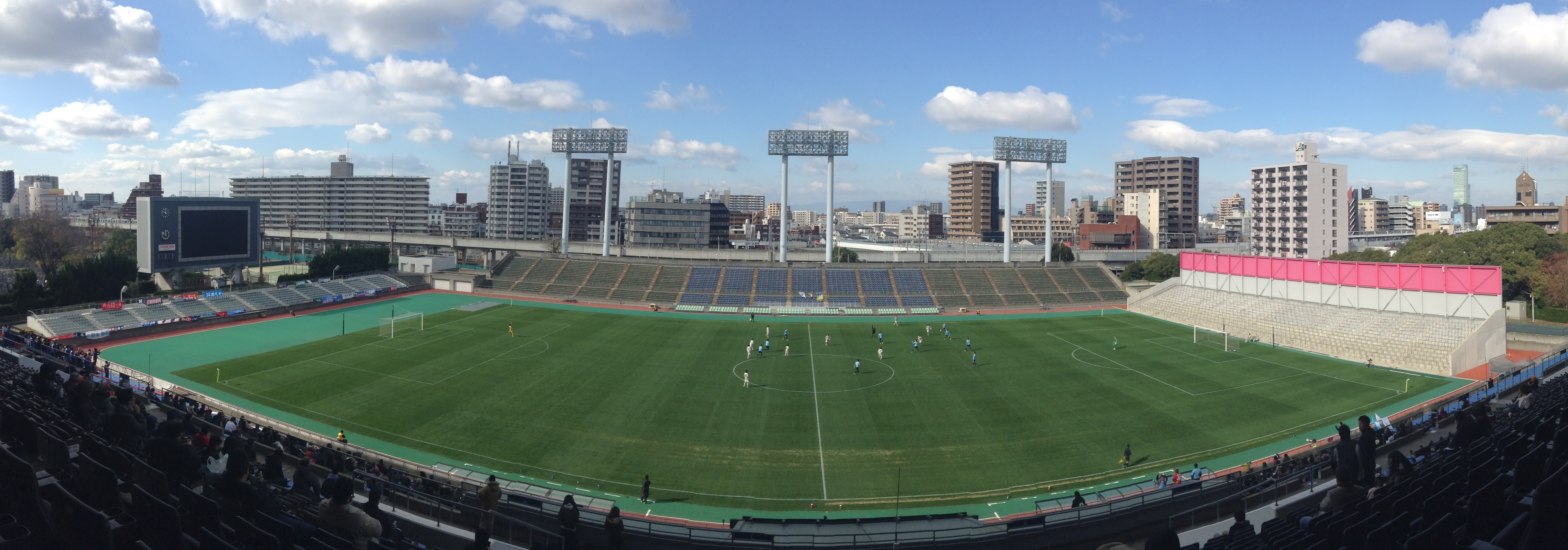 The panoramic photograph of KINCHO Stadium（The KSL Cup 2014 semi-final, 14 December, 2014）